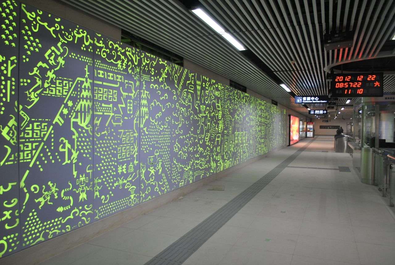 Optics Valley Square Station